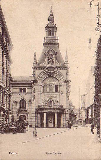 Berlin, Germany: Theater am Schiffbauerdamm (today's Berliner Ensemble)